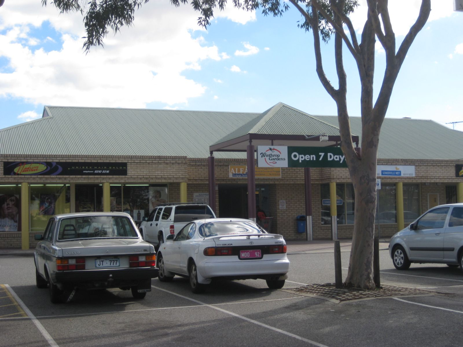 Winthrop Village is the home of Winthrop Garden SUPA IGA and other stores. Cars shown are Volvo 240 GL, Toyota Celica SX (ST184), and Hyundai Getz.